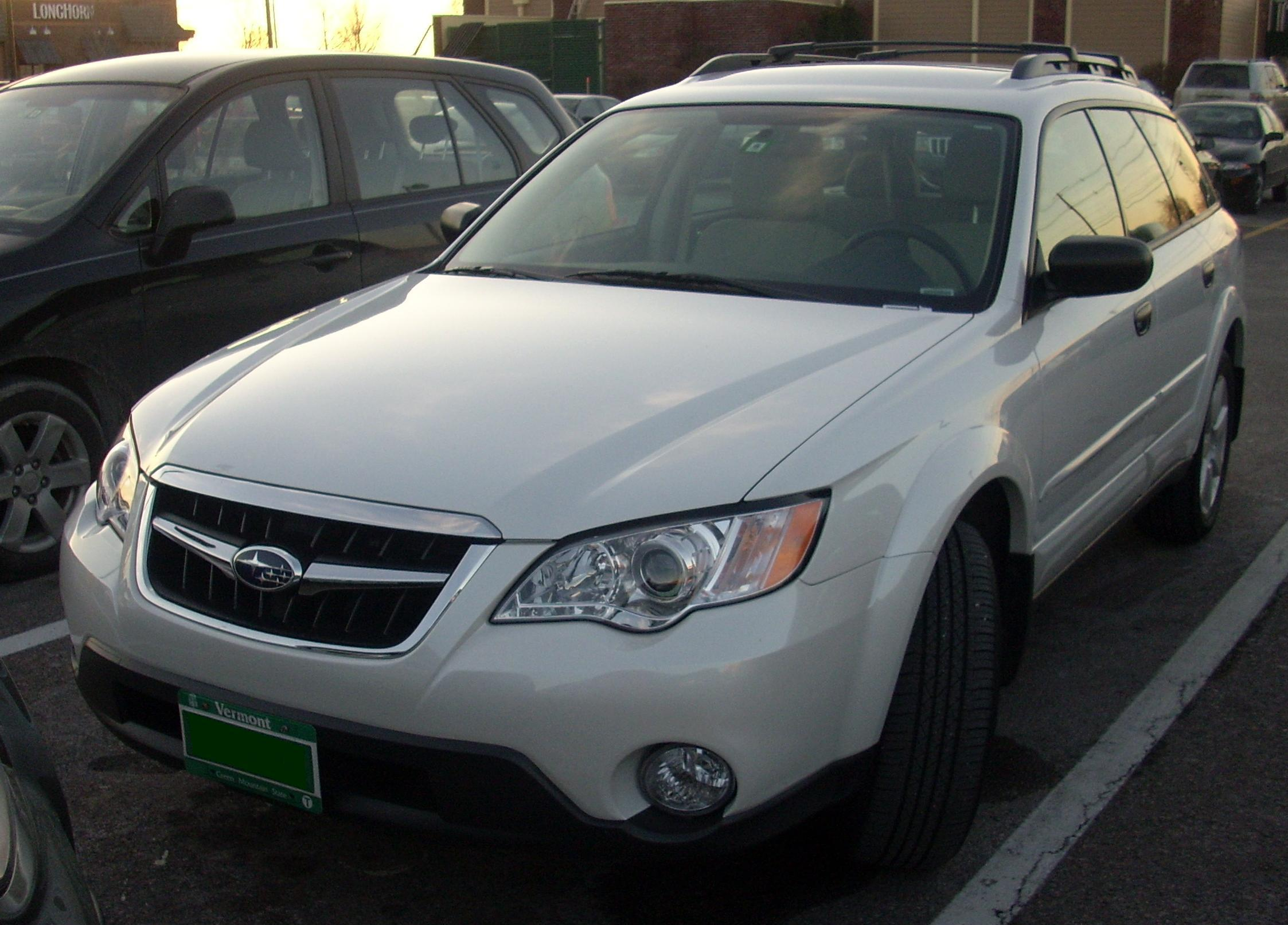 2008 Subaru Outback photographed in Williston, VT, USA.